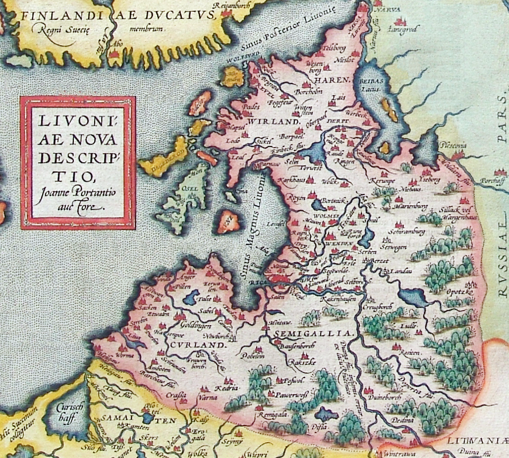 Historical map of Livonian Confederation, Antwerpen, 1573–1598. First published in Theatrum Orbis Terrarum (1570–1612) by Abraham Ortelius. 22 × 24 cm (8.7 × 9.4 in)